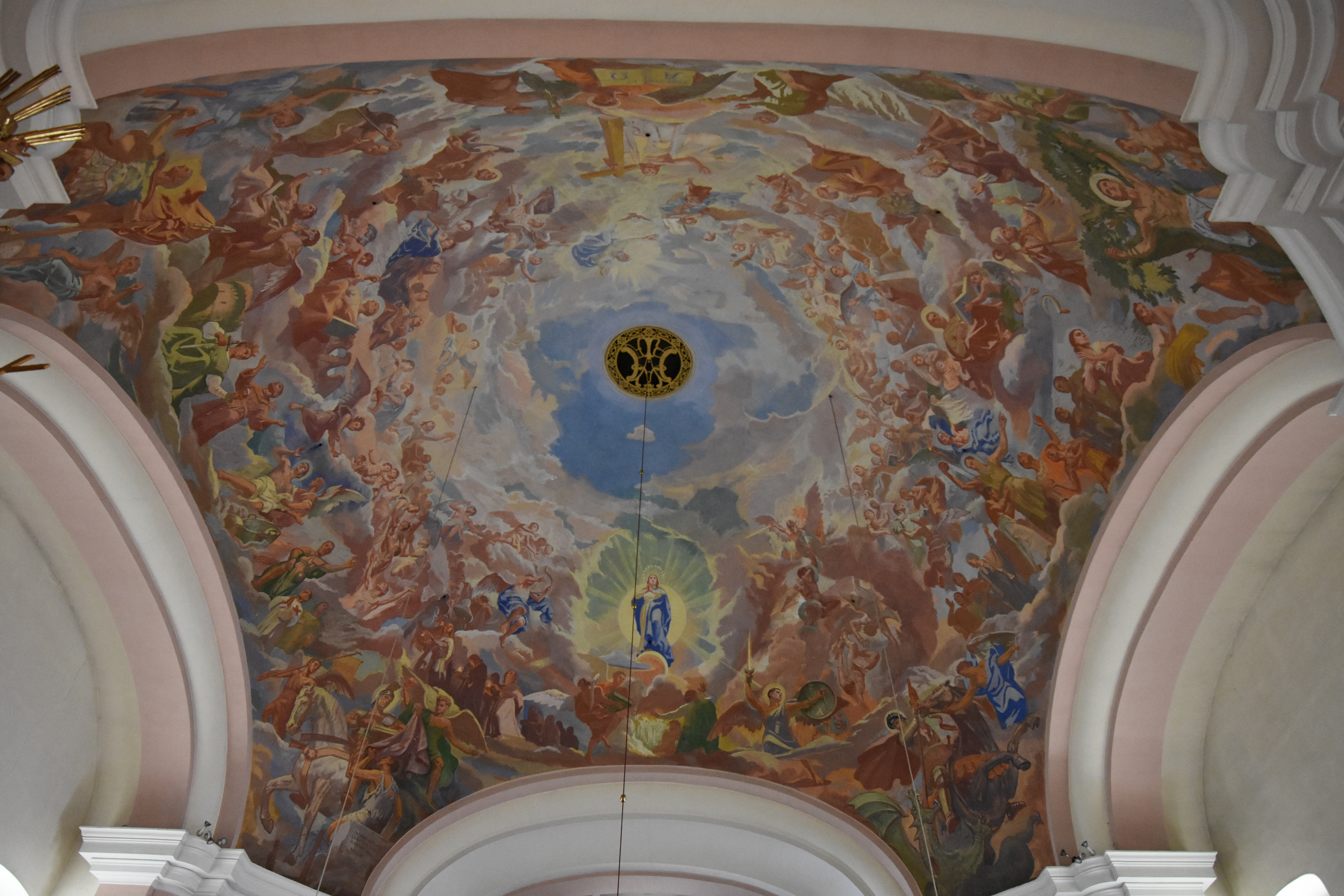 Church Wies - Interior